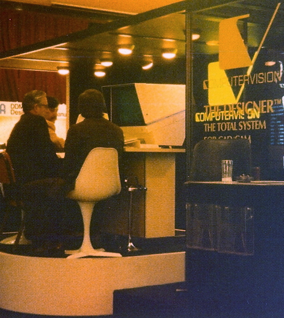 Computervision Designer CAD system at a trade show in 1978.